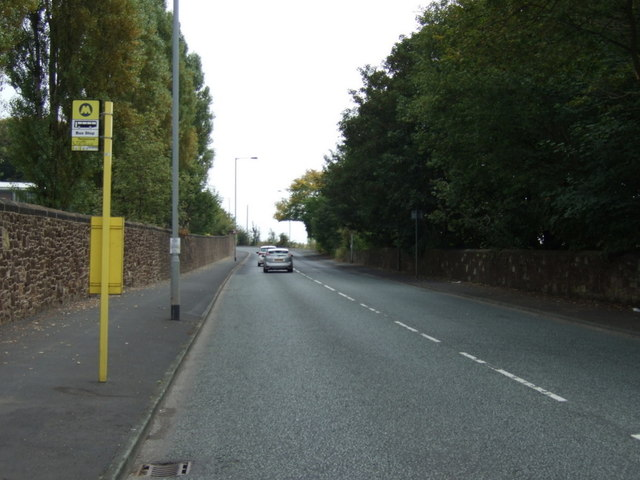 Bus stop on Elton Head Road